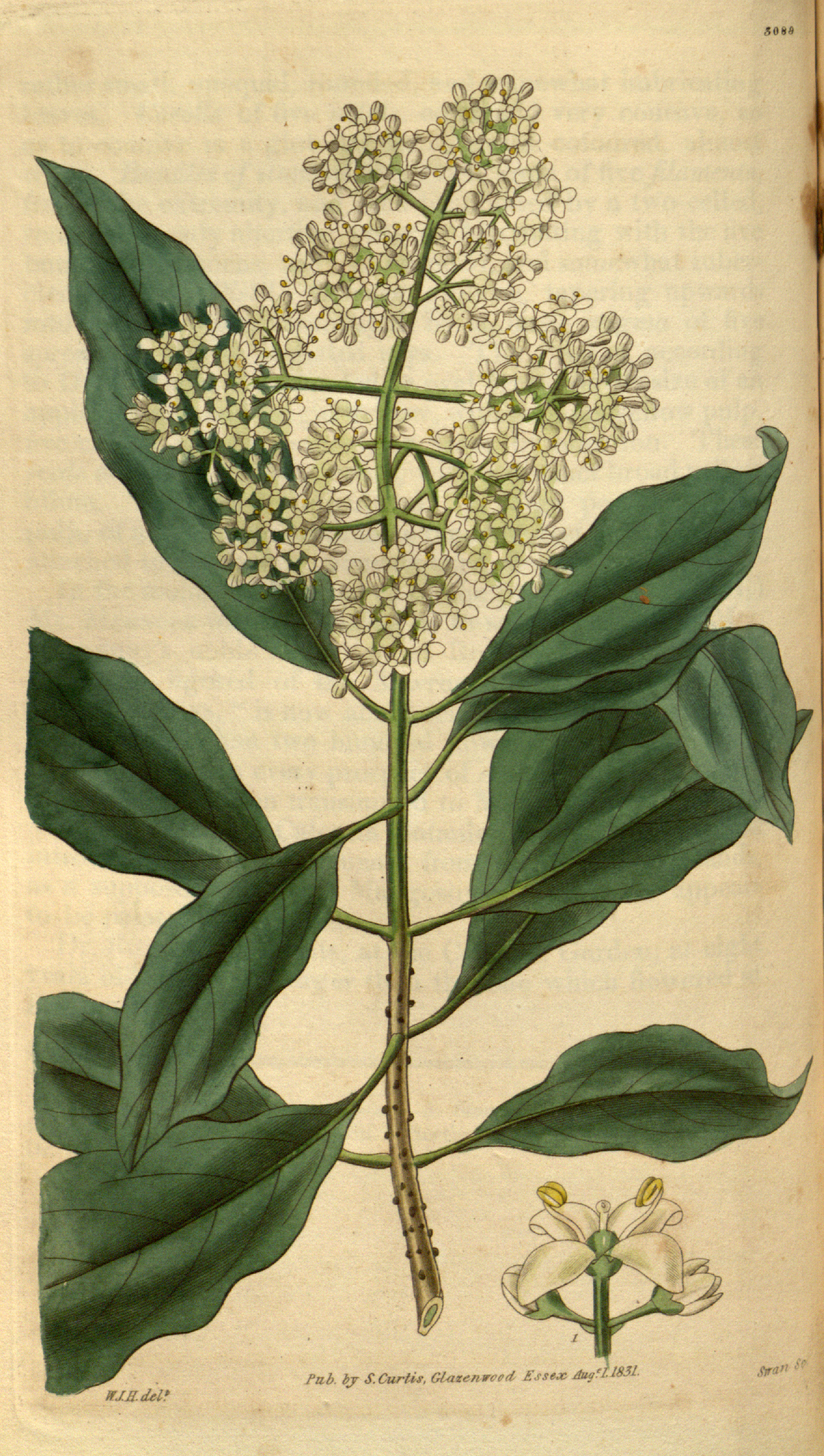 Olea capensis subsp. capensis, as Olea undulata. This is a plate from Curtis's Botanical Magazine, Volume 58.